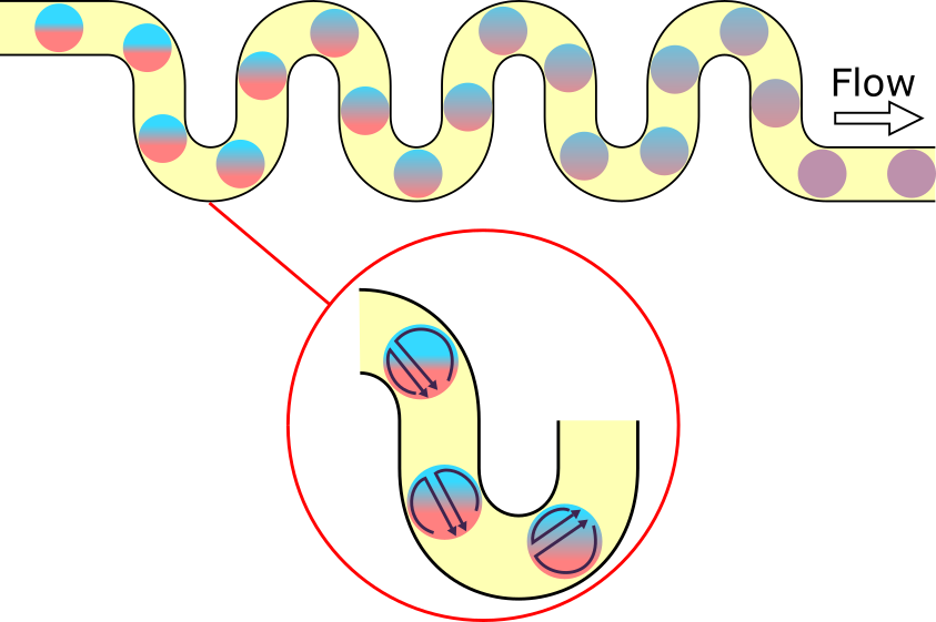 Technique for mixing multiple different fluids in one droplet together in a microfluidic device.